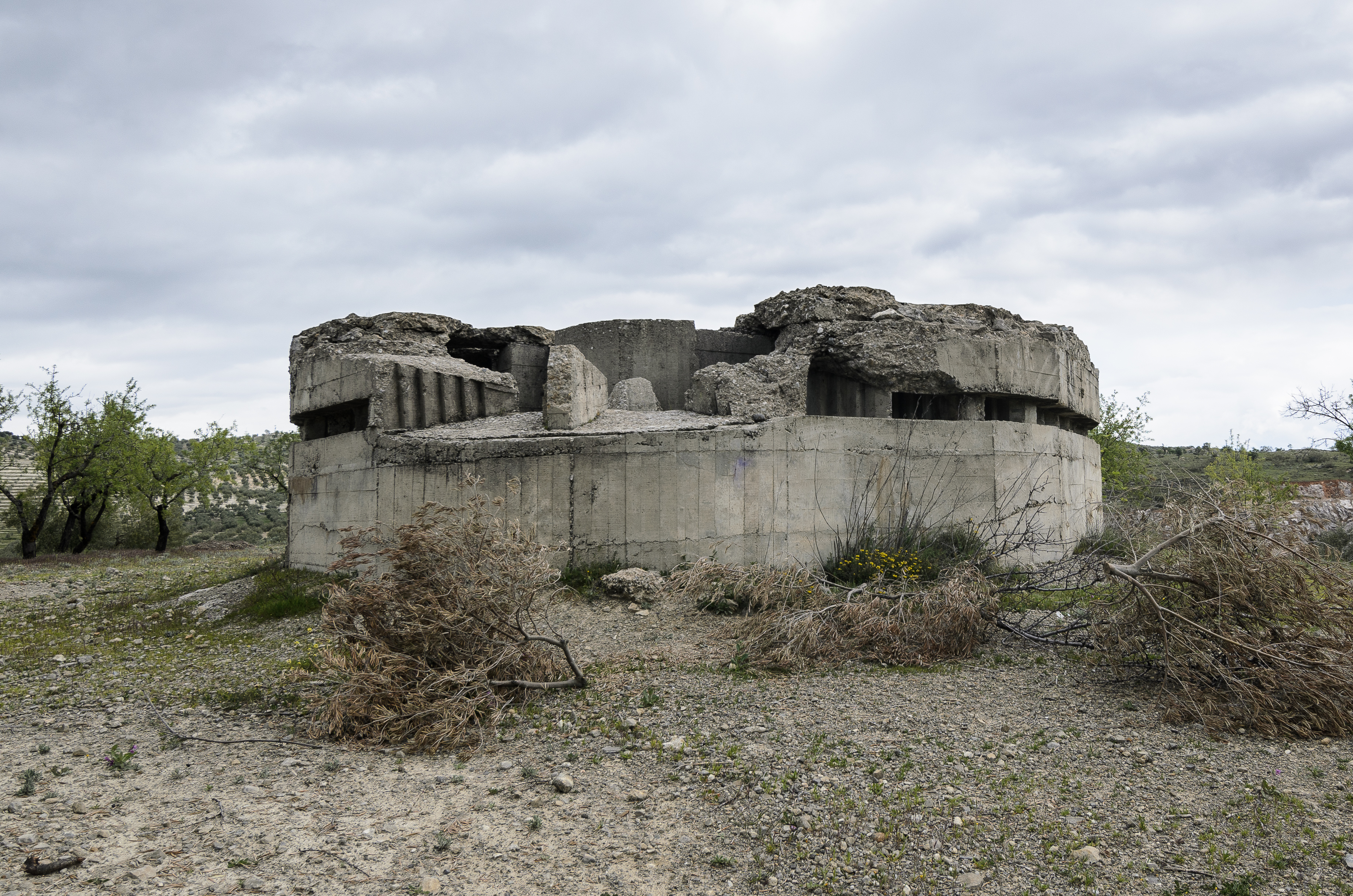 Group of bunkers in Cerro del Aceitunillo in Luque, Cordoba, Spain. Command center.